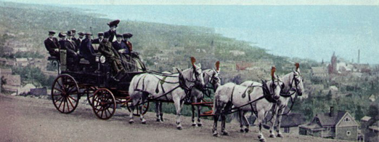 A lithograph postcard of Duluth MN from 1904.